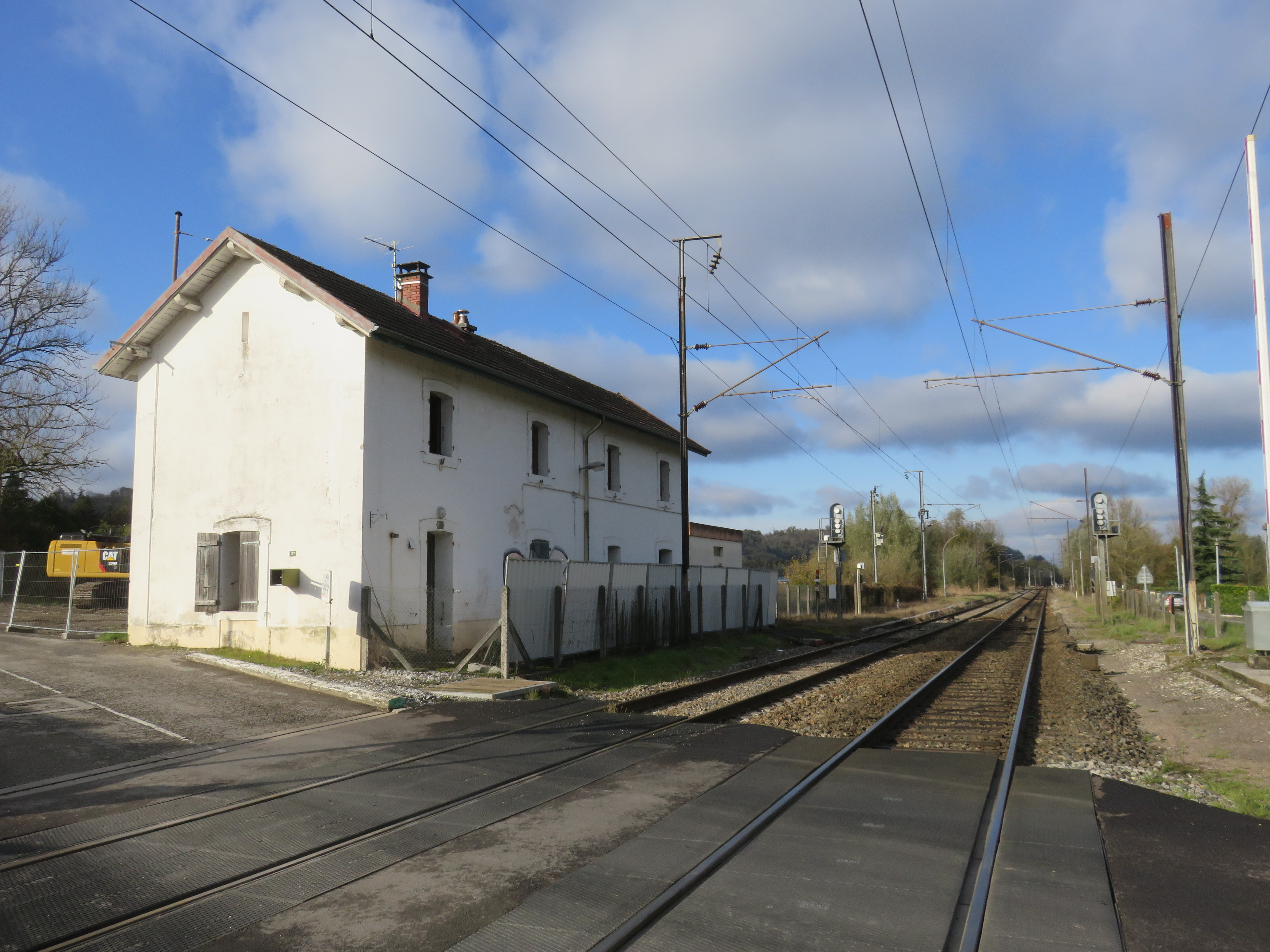 The building and tracks of the former train station of Bloye (Haute-Savoie, France) on November 18, 2019, some hours only before its demolition.